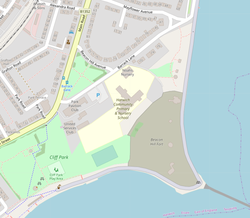 Promontory facing south east from Harwich, Essex Map of Beacon Hill Fort, HarwichThis map of Harwich Essex was created from OpenStreetMap project data, collected by the community. This map may be incomplete, and may contain errors. Don't rely solely on it for navigation.